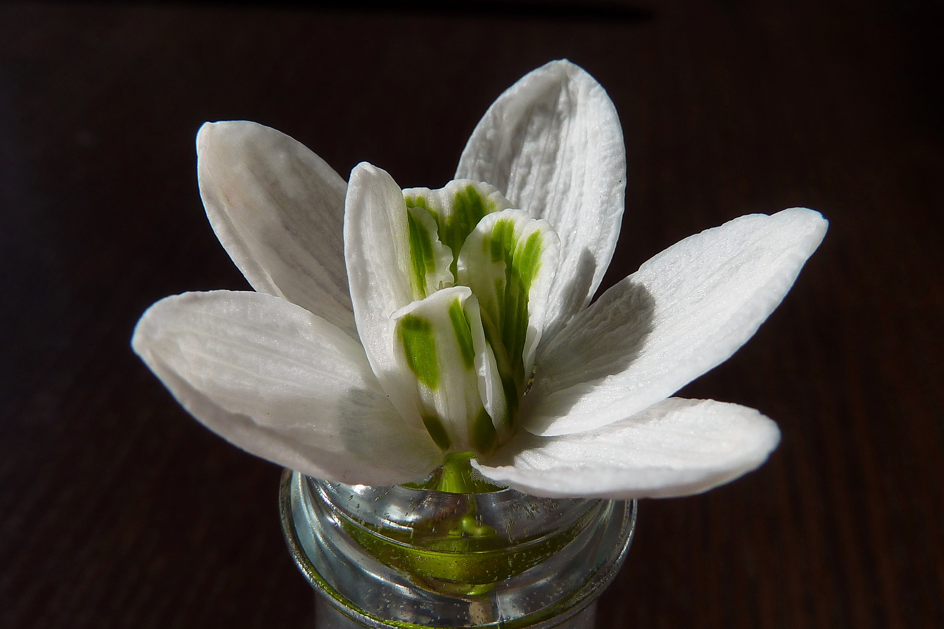 Blossom of snowdrop with six petals